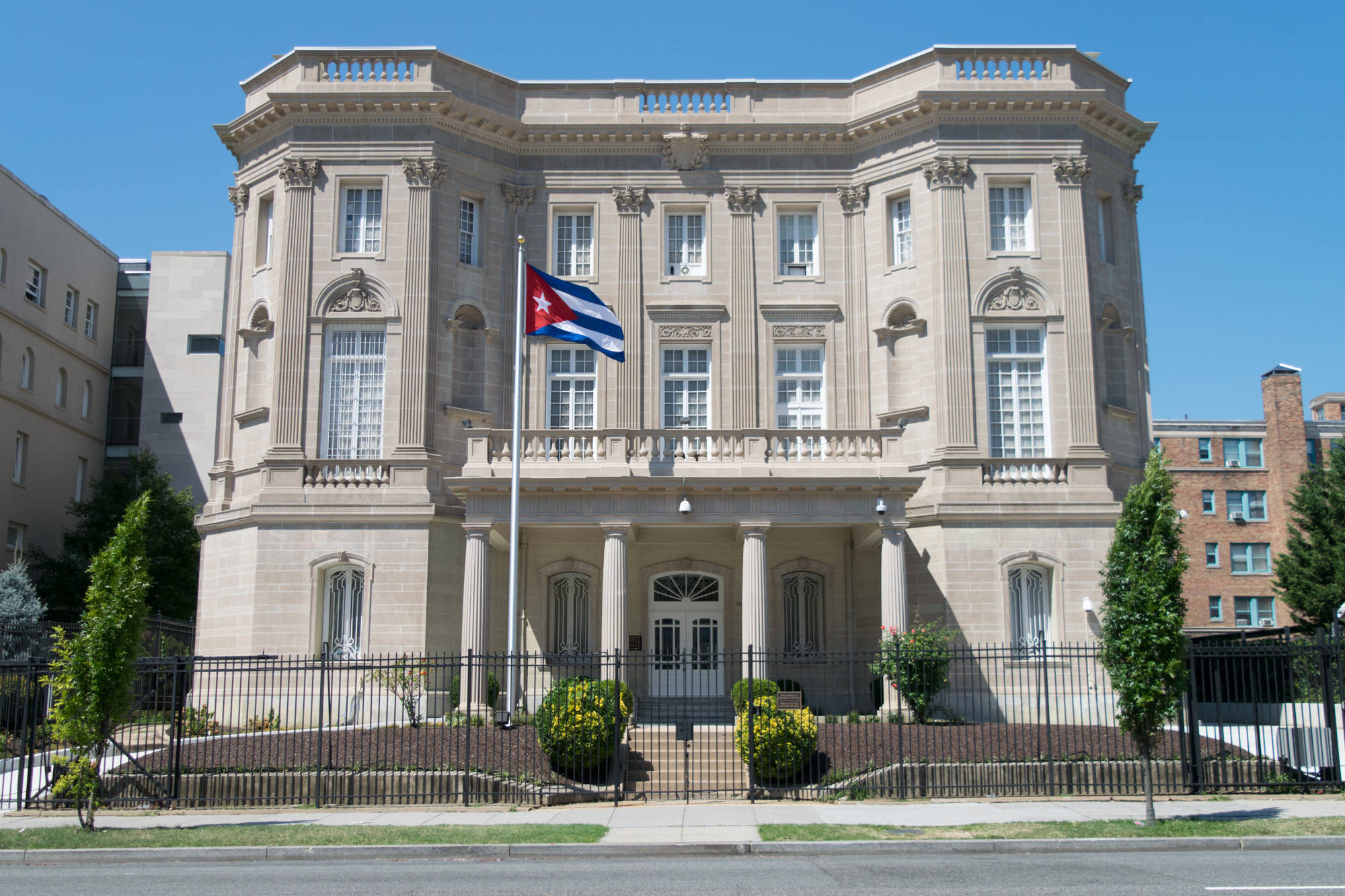 Embassy of the Republic of Cuba in Washington, D.C. after its reopening in 2015.